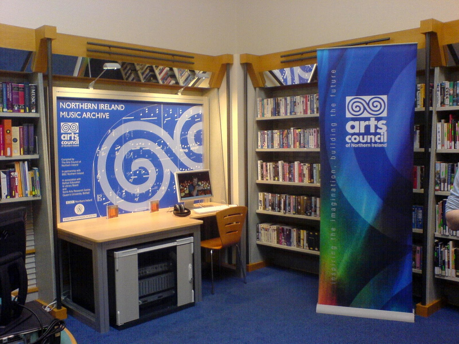 Photograph of the Northern Ireland Music Archive in the Music Library at Belfast Central Library, Northern Ireland.